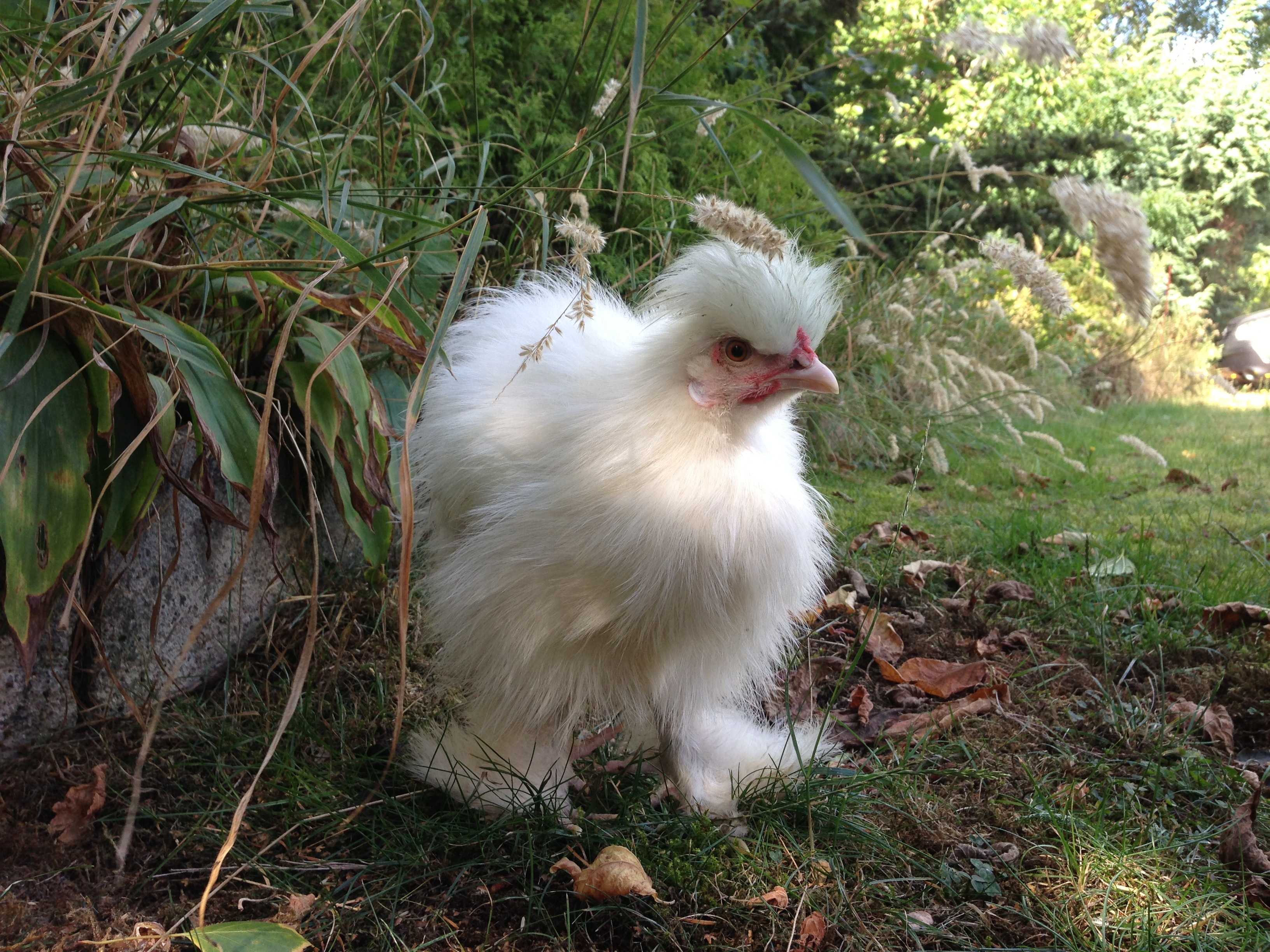 White silkie bantam hen: A species of bantam chicken, very small (1.5 - 3.5 pounds), origin southeast Asia.